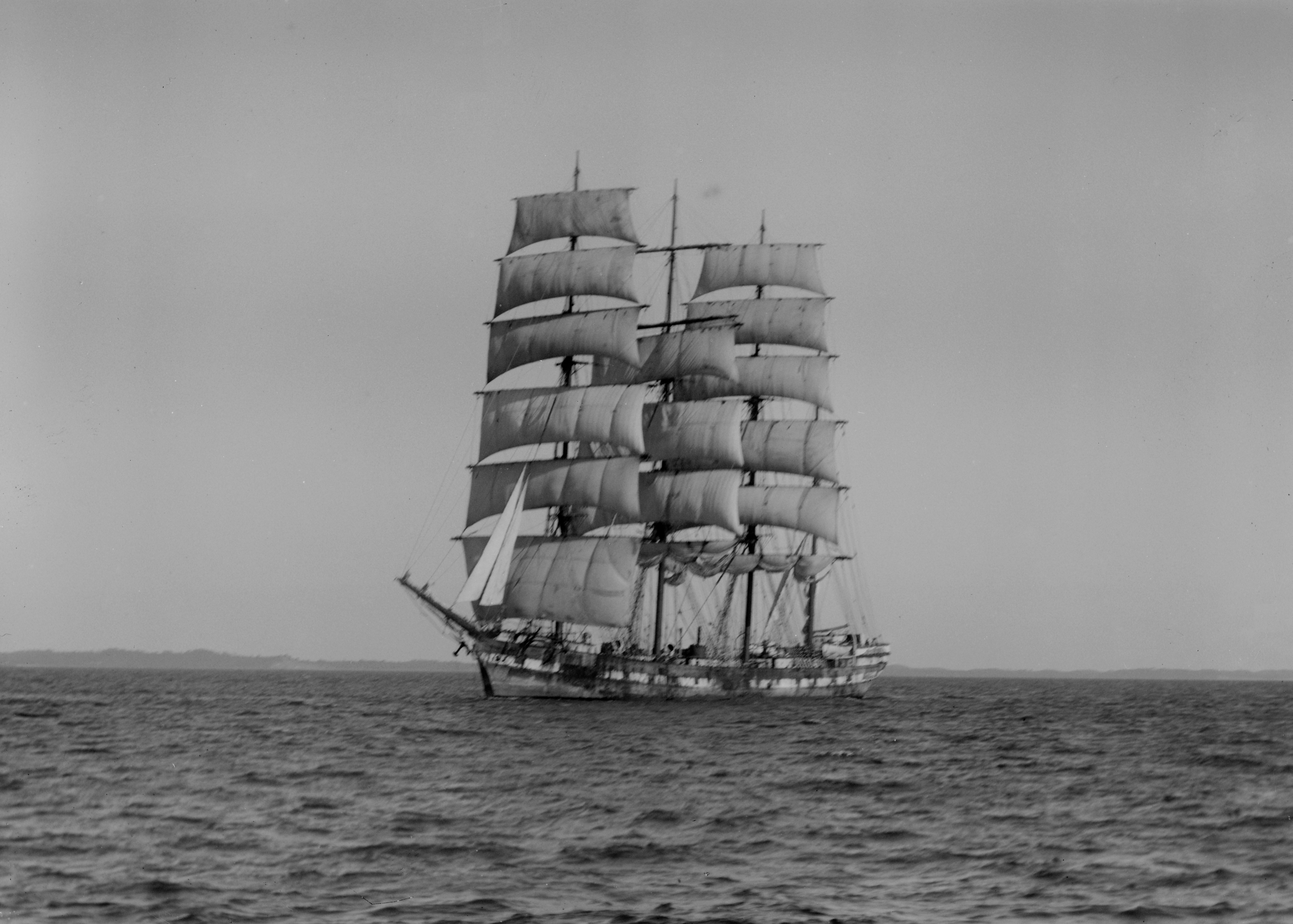 Looking across water towards sailing ship „Hougomont“ in full sail, land on horizon.